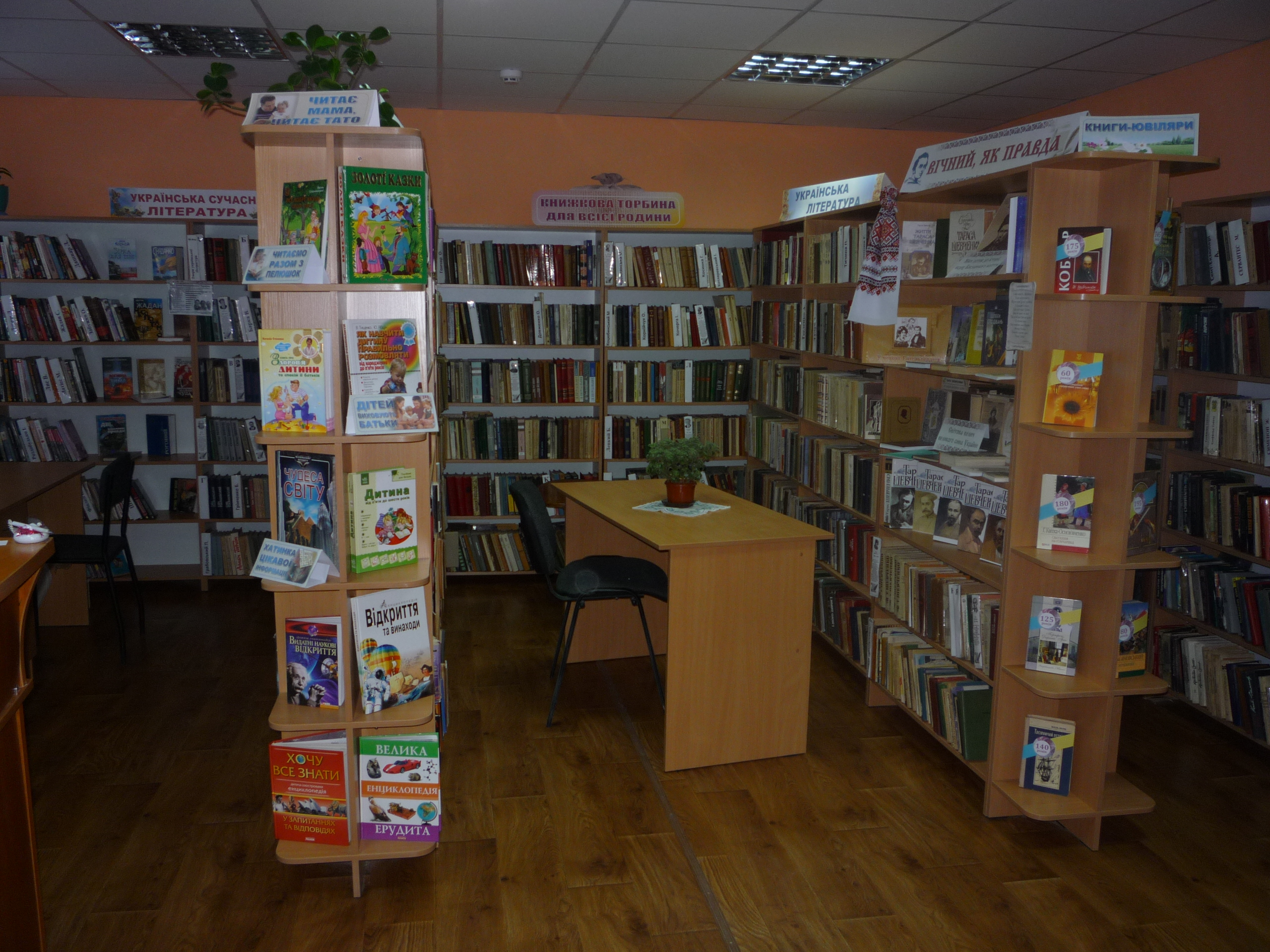 м. Хмельницький. Розкриття книжкового фонду для користувачів після ремонту бібліотеки отримало новий подих.